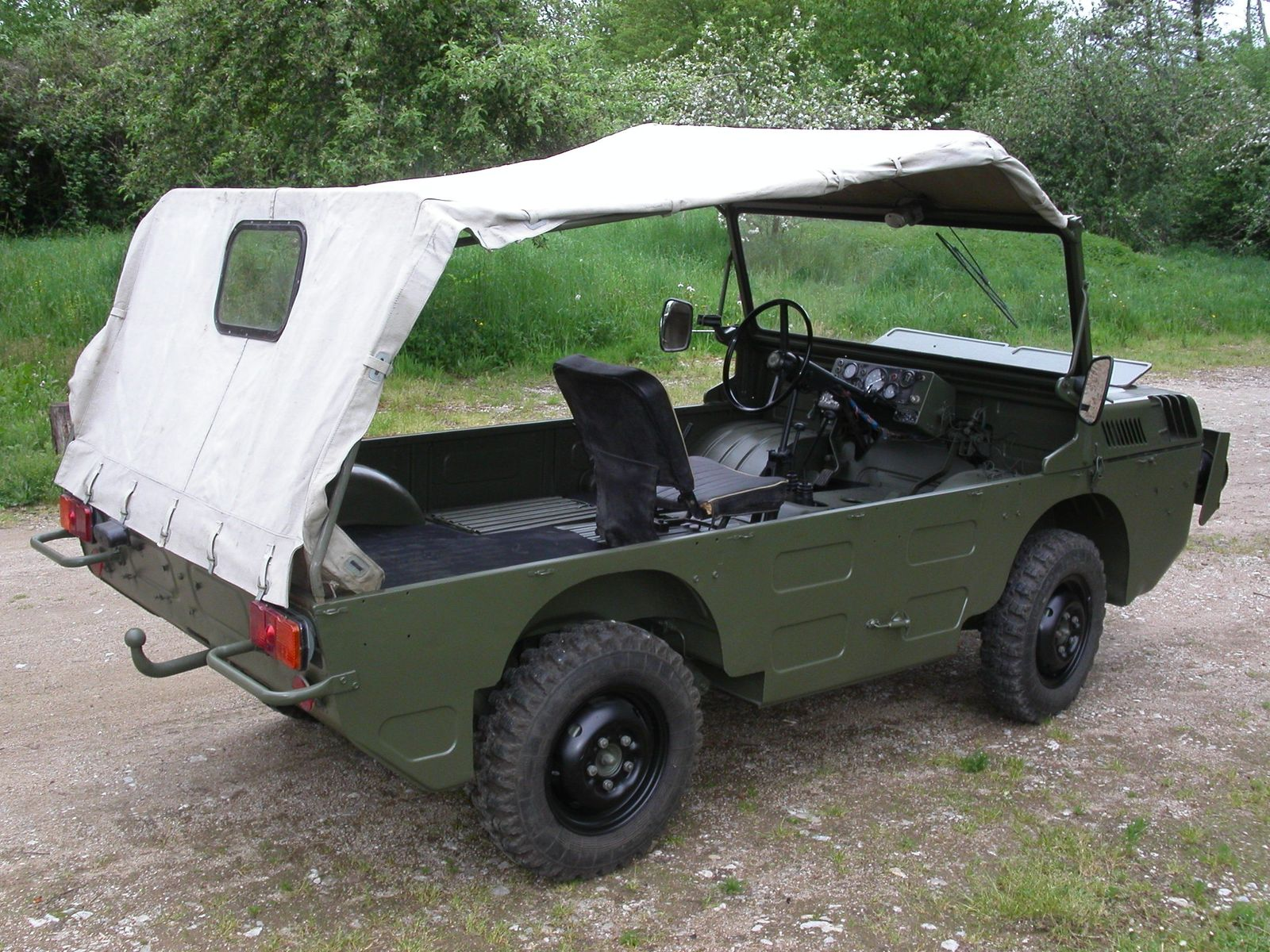 LuAZ 967-M Rear view